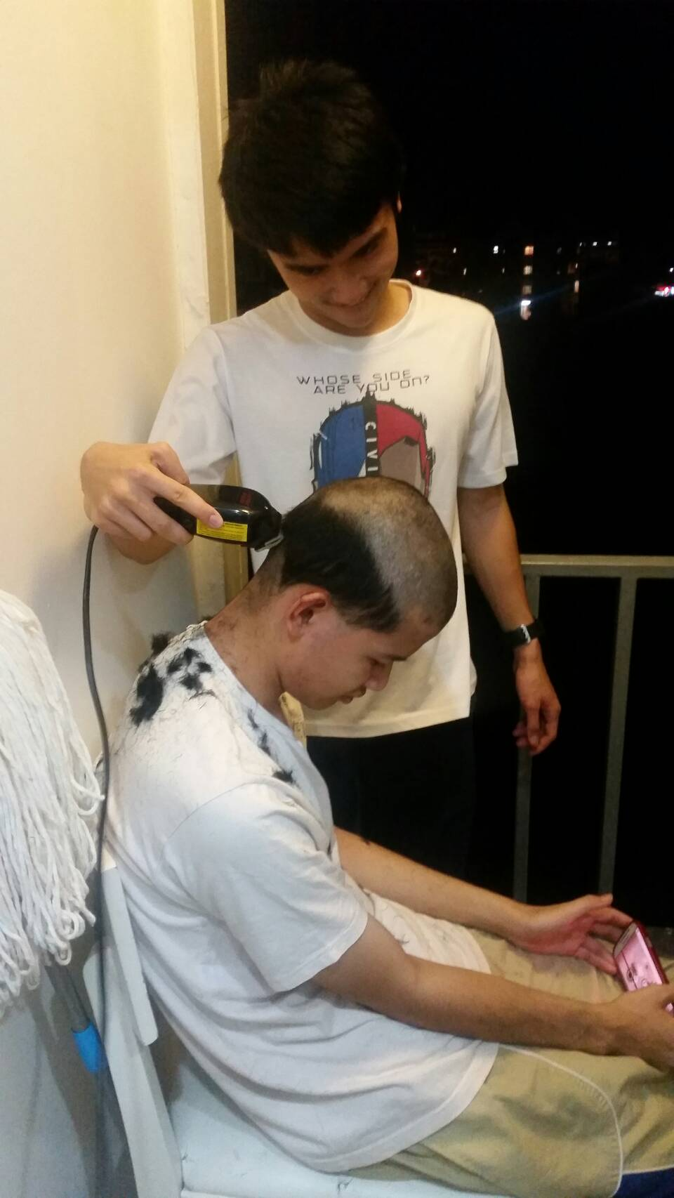 Shaving